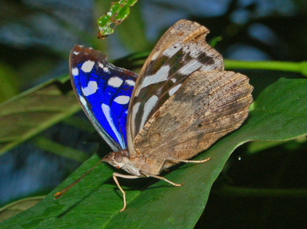 Myscelia cyaniris - Niagara Falls Conservatory